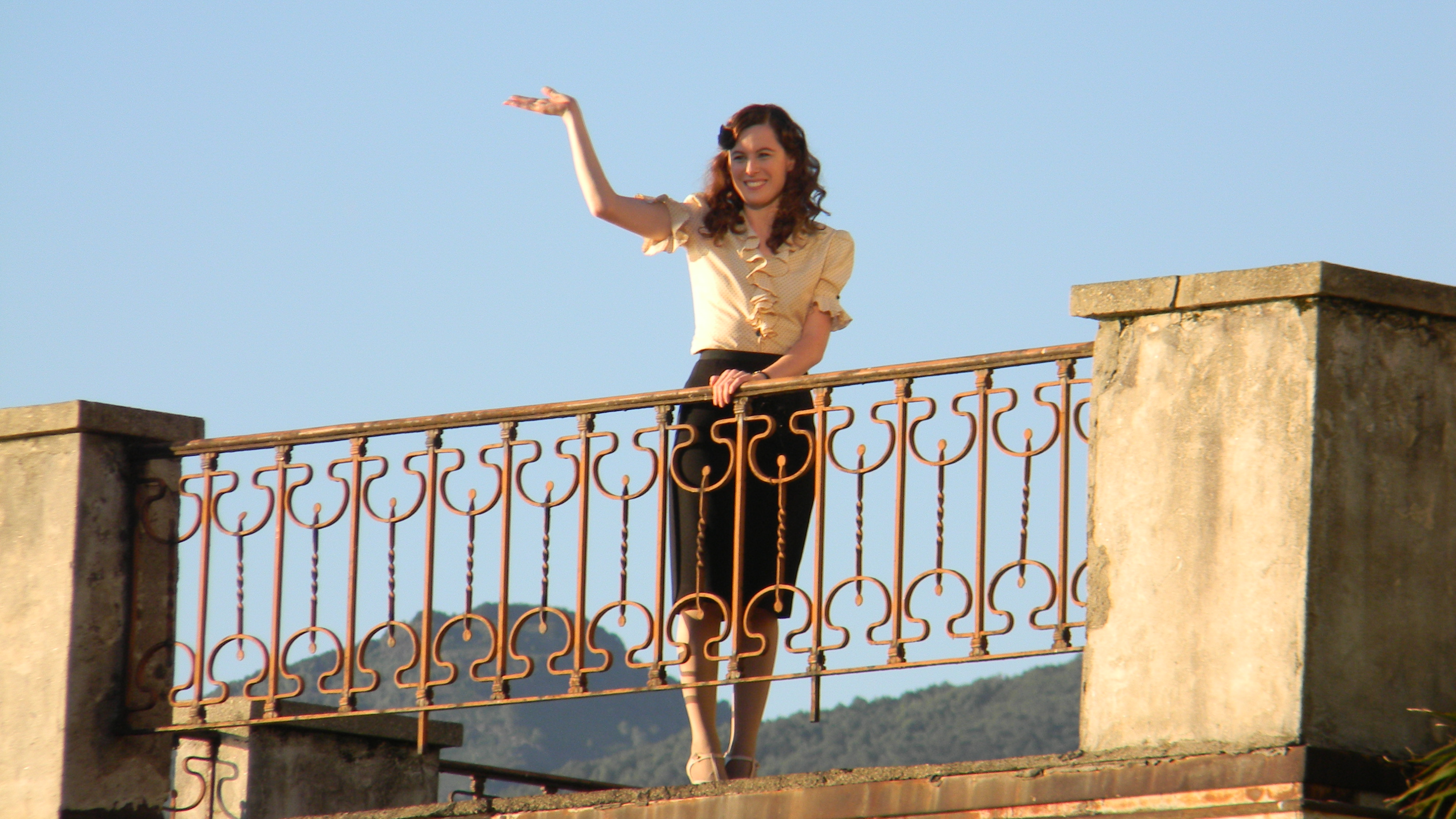 Italian actress Sarah Maestri during the filming of the movie Il pretore in Luino, standing on the terrace of Palazzo Verbania.